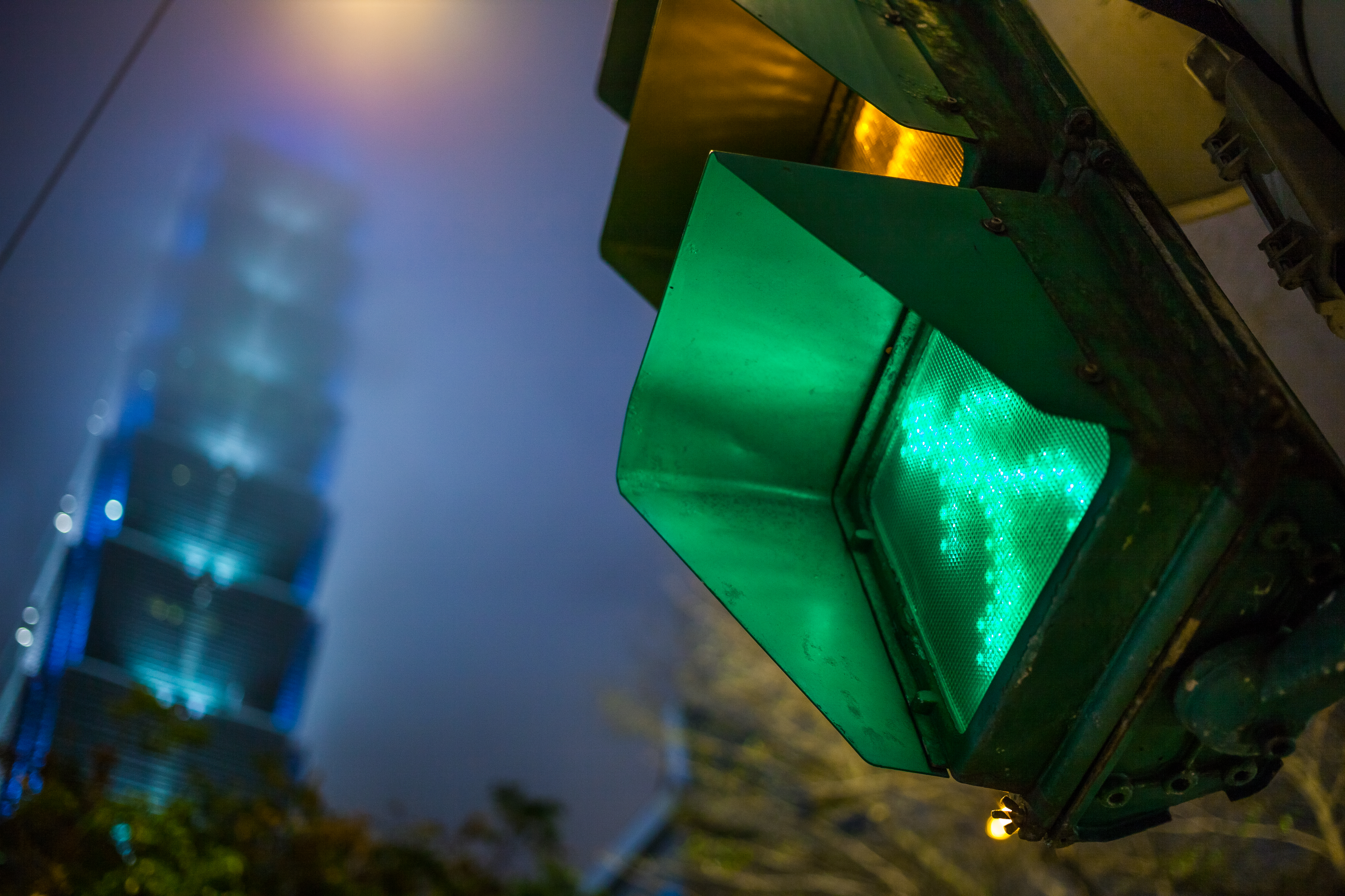 The first actually in-service Taiwanese pedestrian traffic lights "Little Green Man" (aka. "Xiaoluren"), located at the intersection of Songshou and Songzhi roads in Taipei City, Taiwan. Taipei 101 is also showed in the photo. 中文（台灣）: 全球首座正式啟用的小綠人號誌燈，位於台北市信義區松壽路與松智路口。台北101大樓位於照片左方。